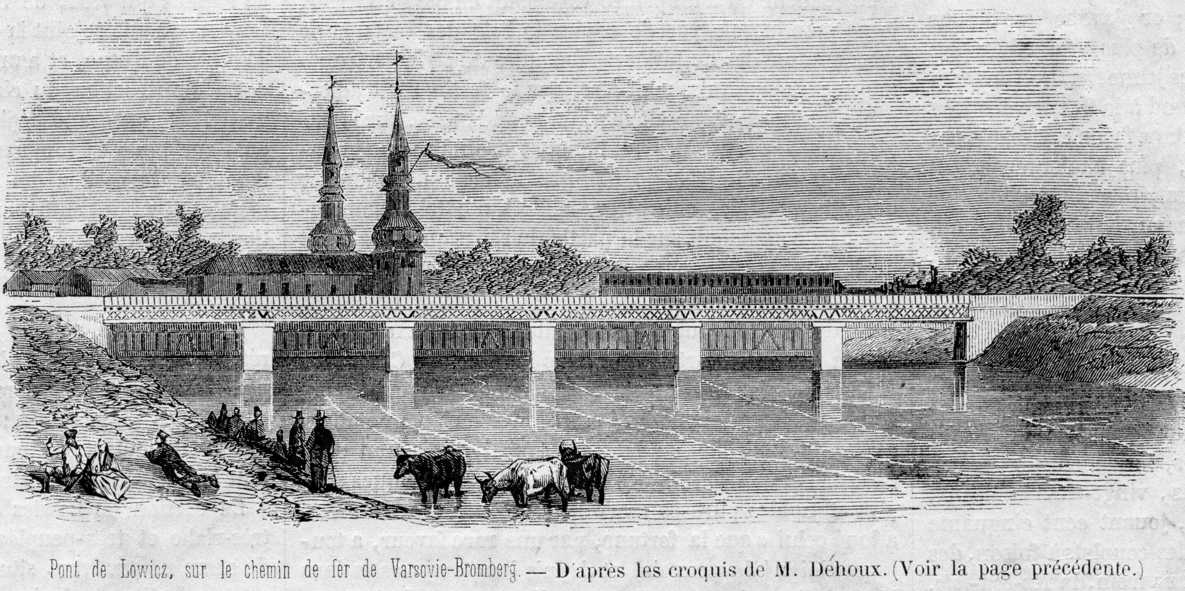 L'Illustration 1862 gravure Pont de Lowicz sur le chemin de fer de Varsovie-Bromberg